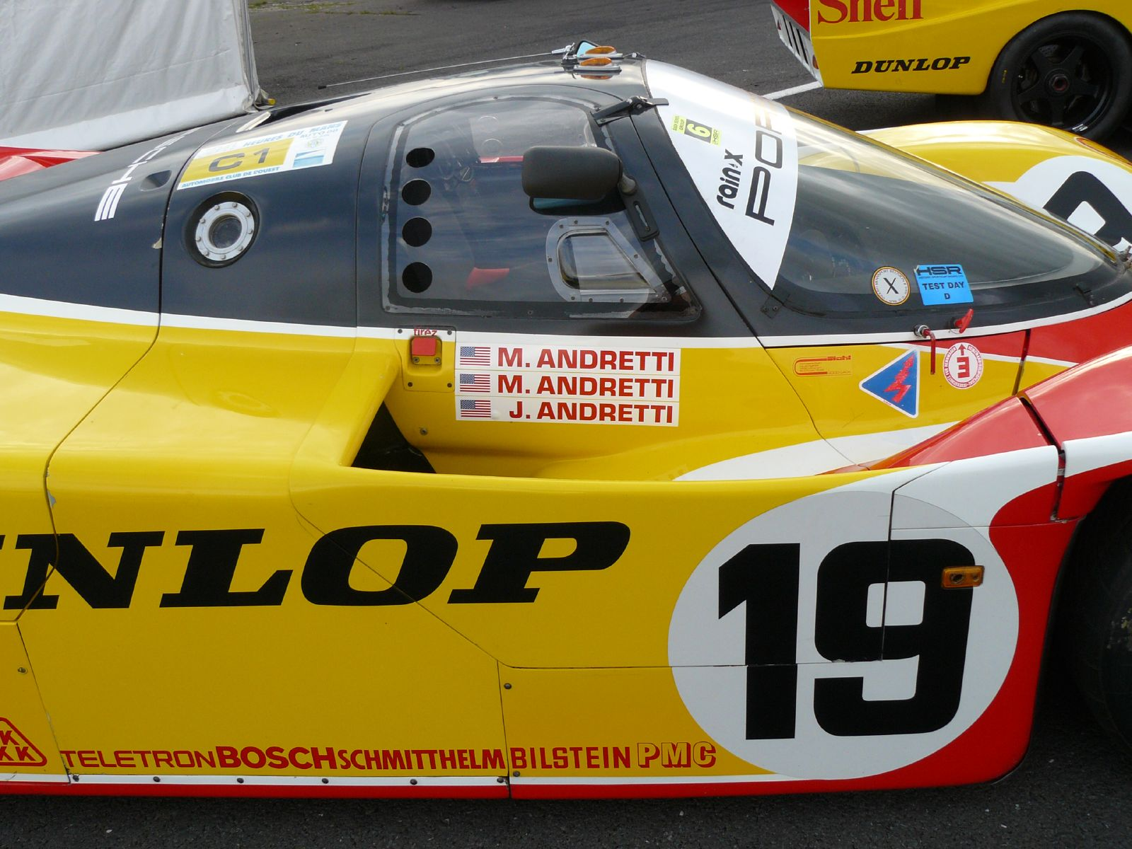 A Porsche 962C at the Silverstone Classic